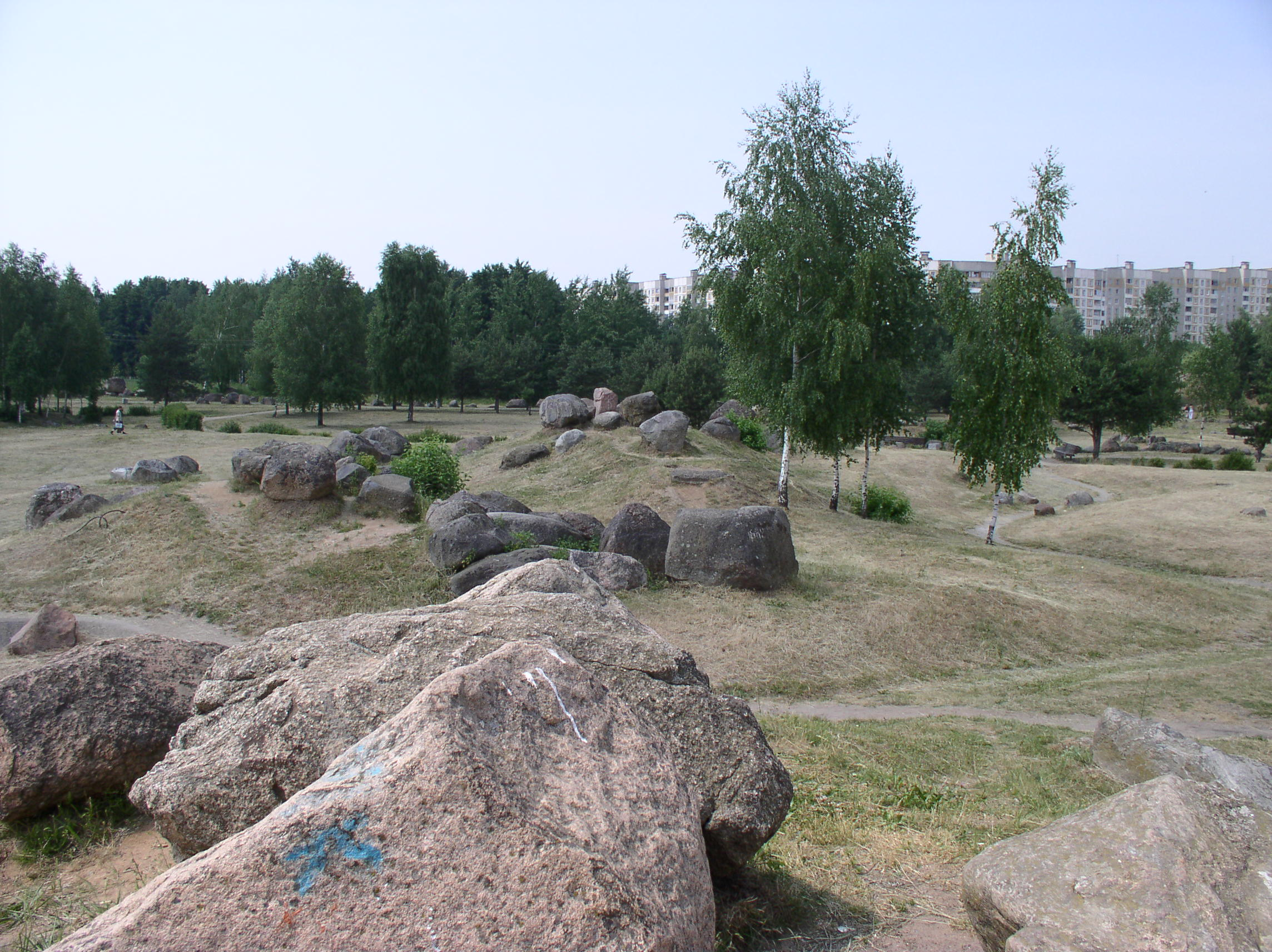 Museum of boulders. Minsk, Belarus.